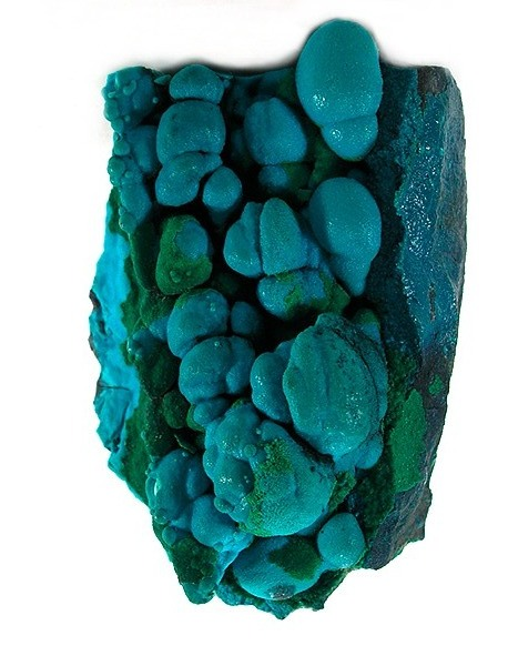 Chrysocolla, Malachite Locality: Mashamba West Mine, Kolwezi, Western area, Katanga Copper Crescent, Katanga (Shaba), Democratic Republic of Congo (Zaïre) (Locality at ) Just a really cute, extremely colorful and fun example of botryoidal chrysocolla from recent finds. In its tream-bed-like aesthetics, it stands out from the crowd! 7.5 x 4.5 x 3 cm